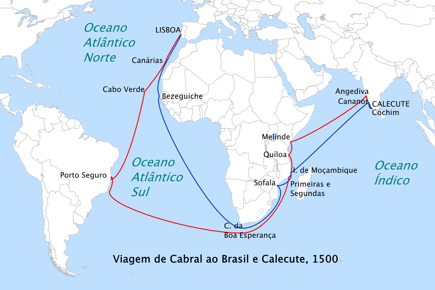 Red: Route taken by Pedro Álvares Cabral from Portugal to India in 1500. Dark blue: return route. Main sources used for information on Cabral's routes: :*Barata, Mário. O descobrimento de Cabral e a formação inicial do Brasil. Coimbra: Biblioteca Geral da Universidade de Coimbra, 1991. :*Bueno, Eduardo. A viagem do descobrimento: a verdadeira história da expedição de Cabral. Rio de Janeiro: Objetiva, 1998. ISBN 8573022027 :*Diffie, Bailey Wallys; Boyd C. Shafer; George Davison Winius. Foundations of the Portuguese empire, 1415–1580 (v.1). Minneapolis: University of Minneapolis Press, 1977. ISBN 0816607826 :*Greenlee, William Brooks. The voyage of Pedro Álvares Cabral to Brazil and India: from contemporary documents and narratives. New Delhi: J. Jetley, 1995. :*McClymont, James Roxbury. Pedraluarez Cabral (Pedro Alluarez de Gouvea): his progenitors, his life and his voyage to America and India. London: Strangeways & Sons, 1914. :*Newitt, M. D. D. A History of Portuguese Overseas Expansion 1400–1668. New York: Routledge, 2005. ISBN 041523980X Based on work created by MesserWoland and Petr Dlouhý: File:A large blank world map with oceans marked in blue.svg.